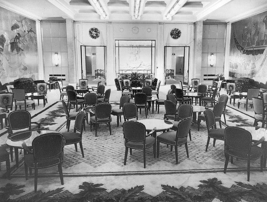 Photo of the Grand Salon of the SS Ile de France.